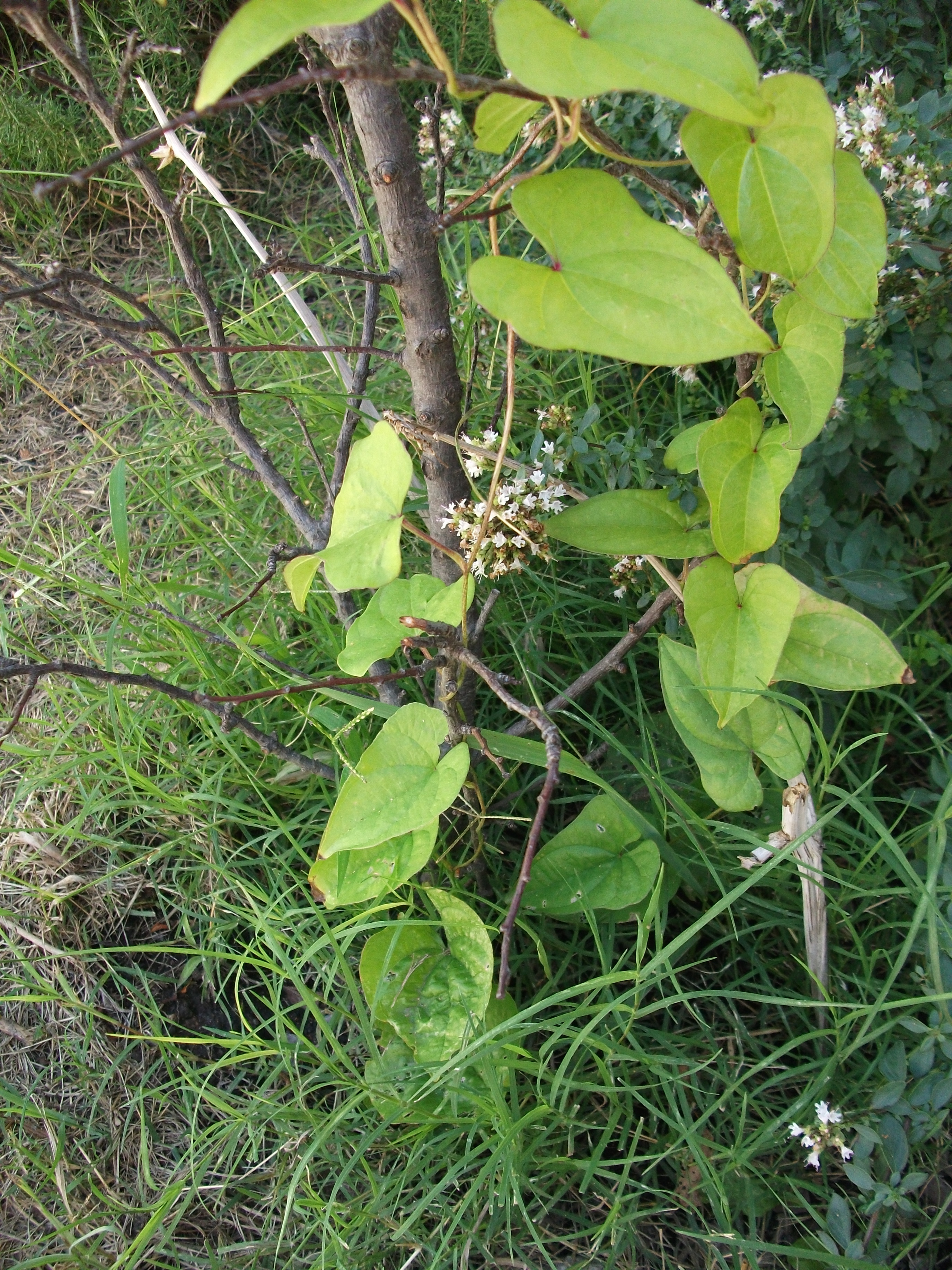 Dioscorea Japonica (Yamaimo) climbing a dead twig